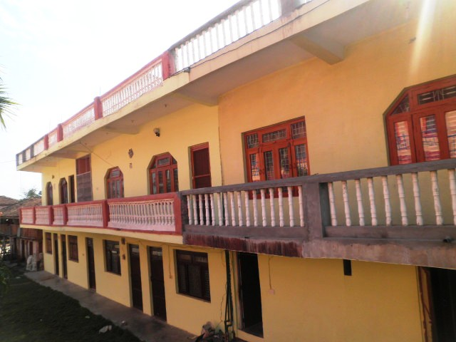 Mandir Side Building